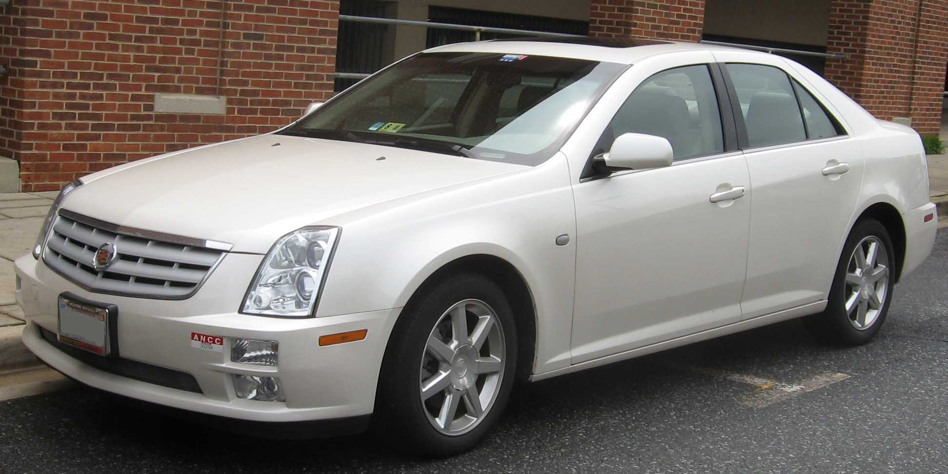 2005-2007 Cadillac STS photographed in College Park, Maryland, USA.